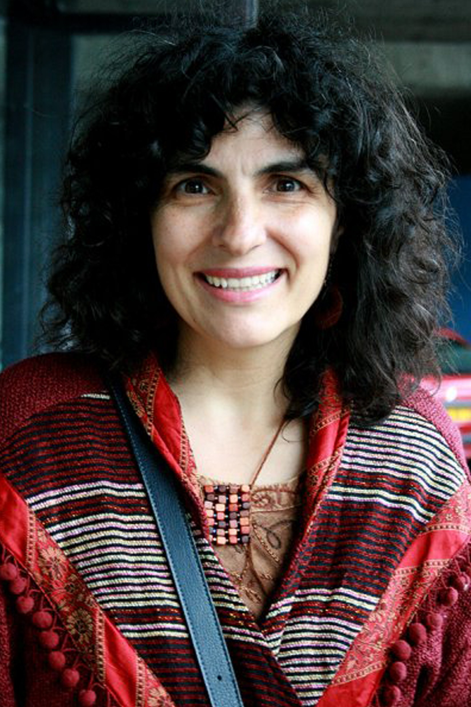 Leila Schneps Photo by Natacha Colmez